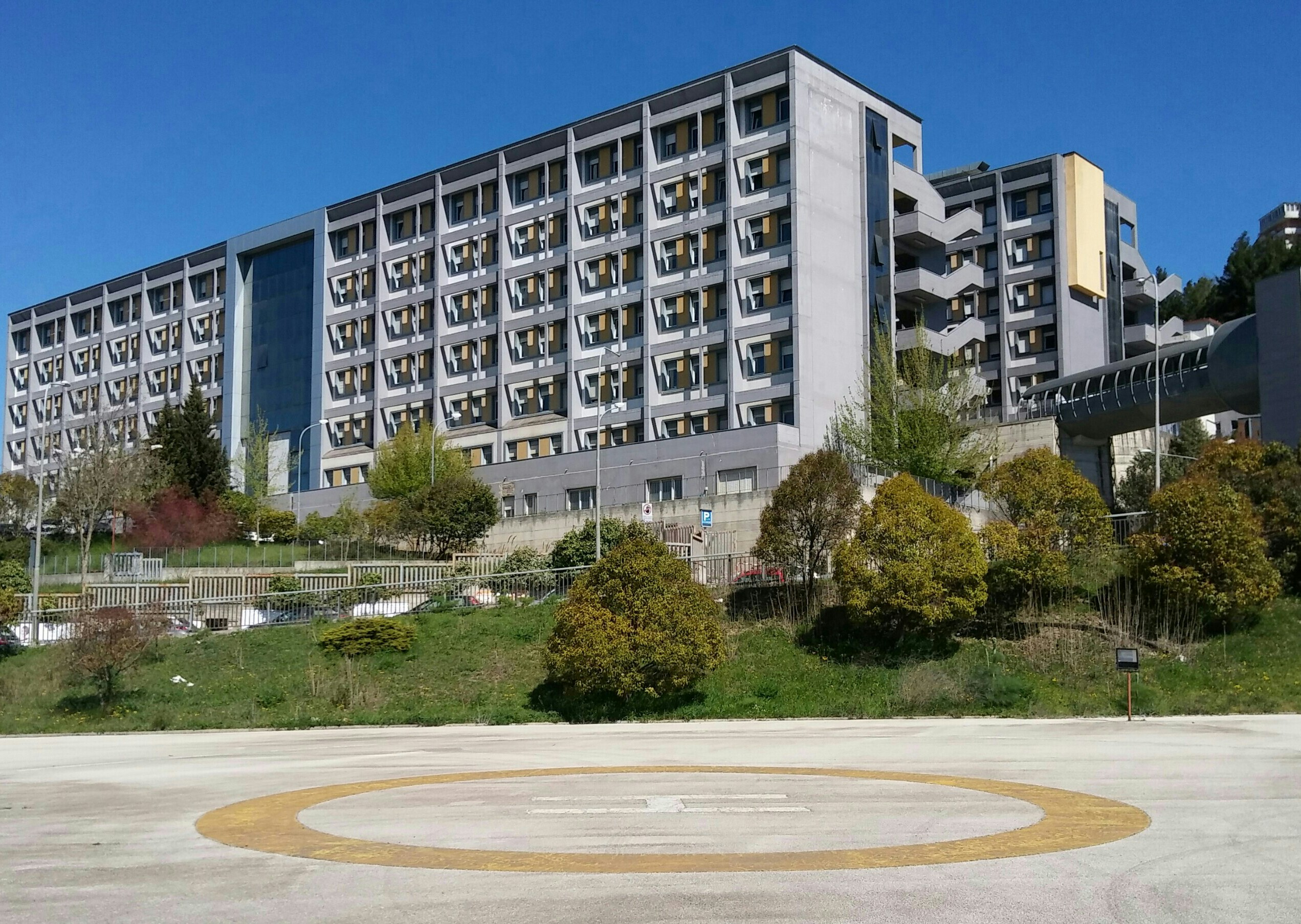 A view of Ariano Irpino Hospital (Italy) with the helipad in the foreground